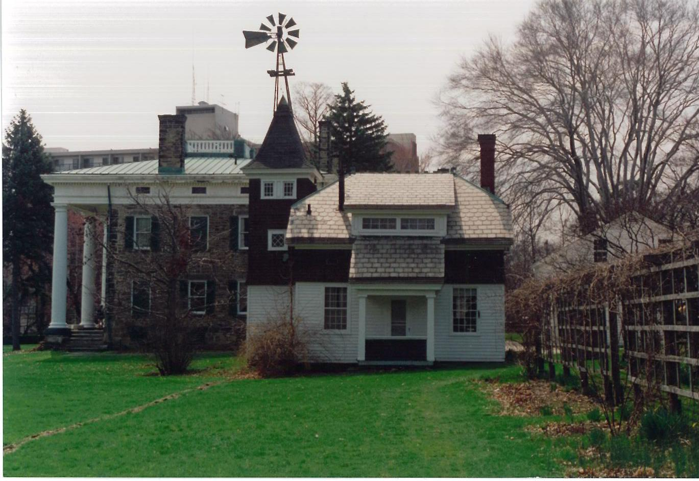 View of the Perkins Stone Mansion showing the Wash House